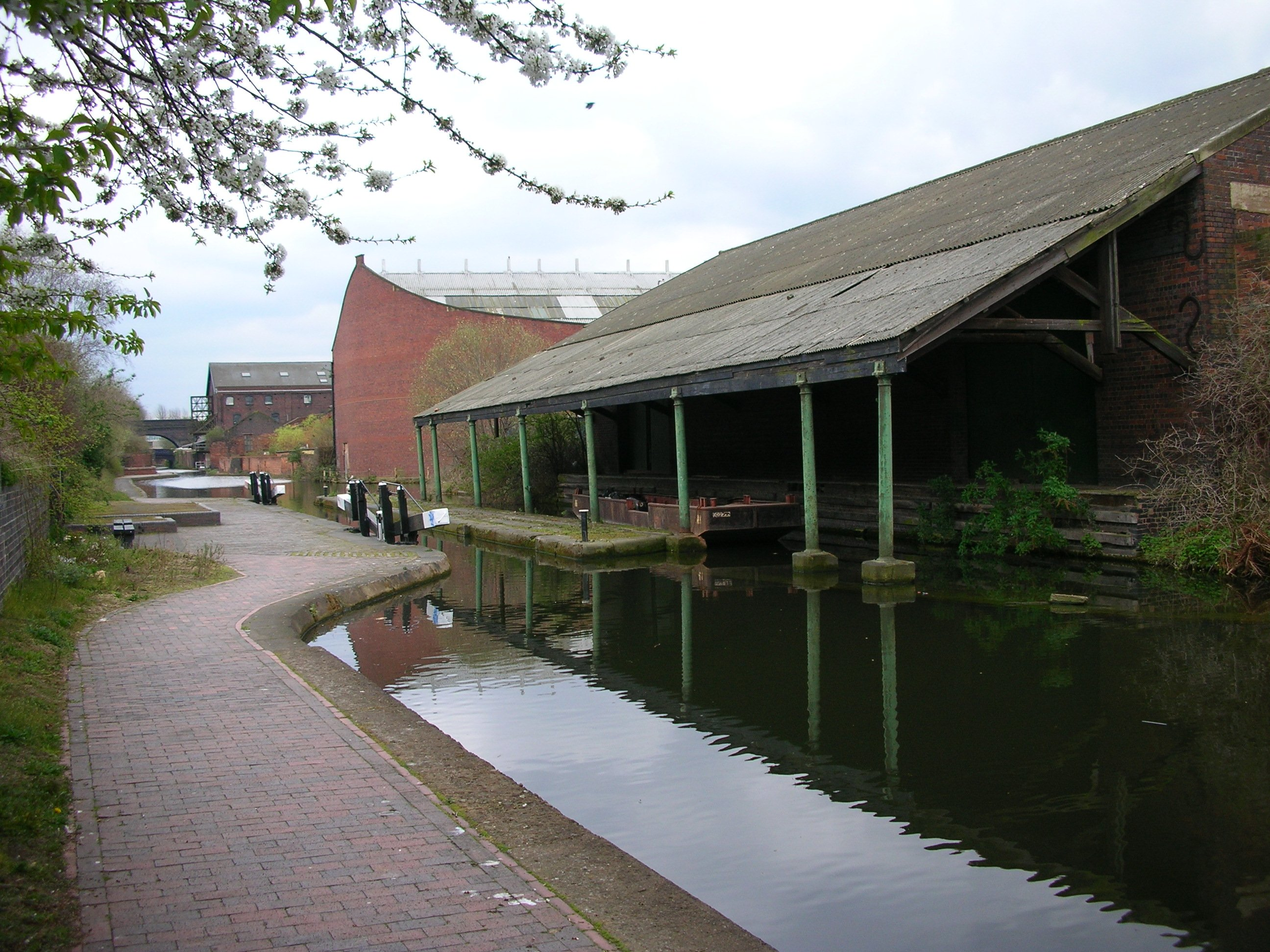 The Warwick Bar stop lock and adjacent Banana Warehouse once owned by Geest in Digbeth, Birmingham, England. Grade II listed (217053). The stop lock, or bar, is a physical barrier to prevent water loss (or theft) from one private canal to another, in this case the Digbeth branch of the Birmingham Canal Navigations and the Warwick and Birmingham Canal (now the Grand Union Canal). In this case the stop lock consists of two opposing lock gates at each end of a lock so that a boat could be transferred from one canal to the other with a miniscule amount of water loss, and no water flow, no matter which canal happened to be the higher at any particular time. Today the gates are chained open as both canals are under common control. The curved brick wall behind the old Banana Warehouse is the back of the Fellows Morton and Clayton building (1935). Photographed by me 9 April 2007. Oosoom